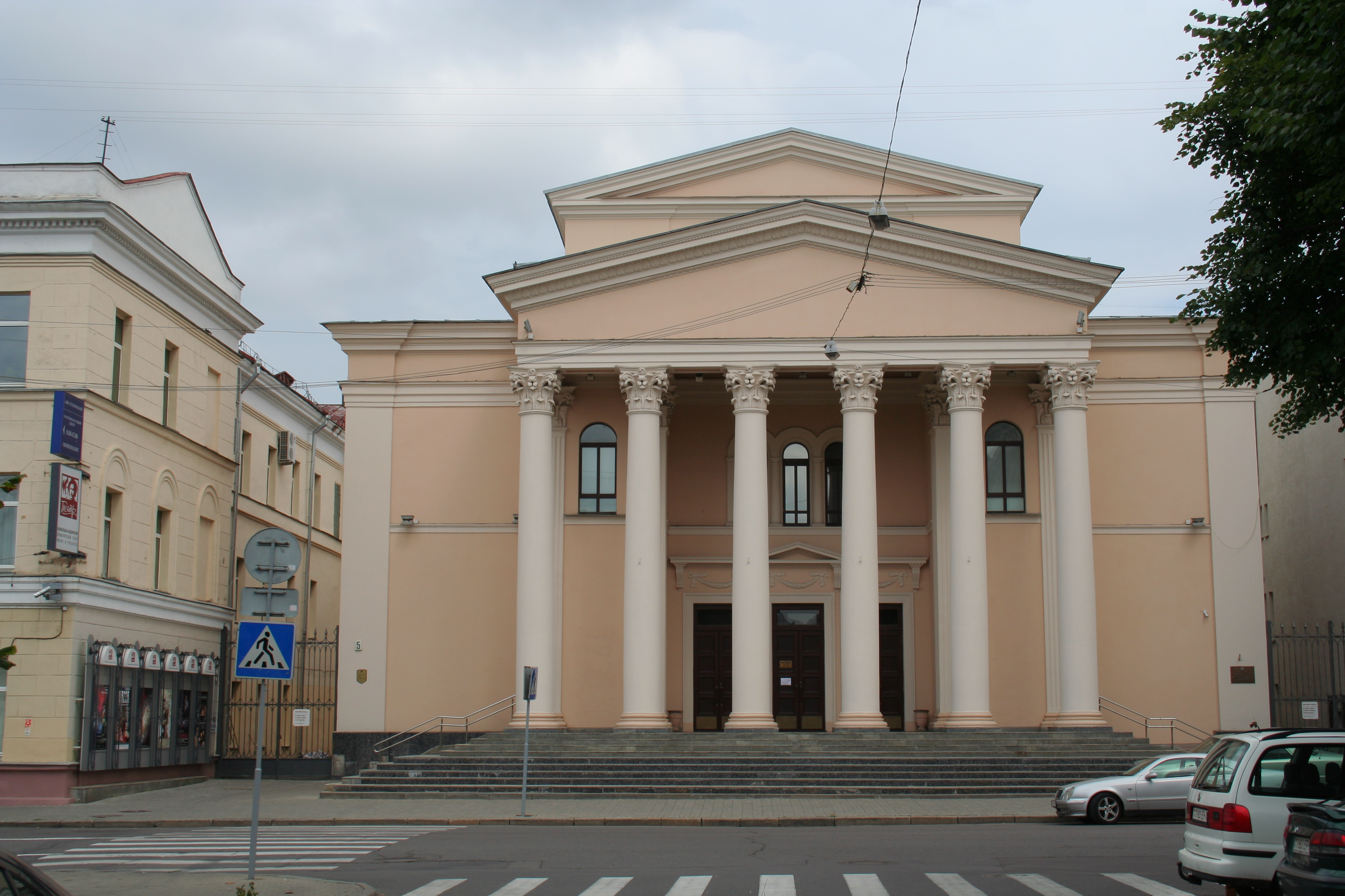 Views of Minsk (Belarus). Maxim Gorky Drama theatre.